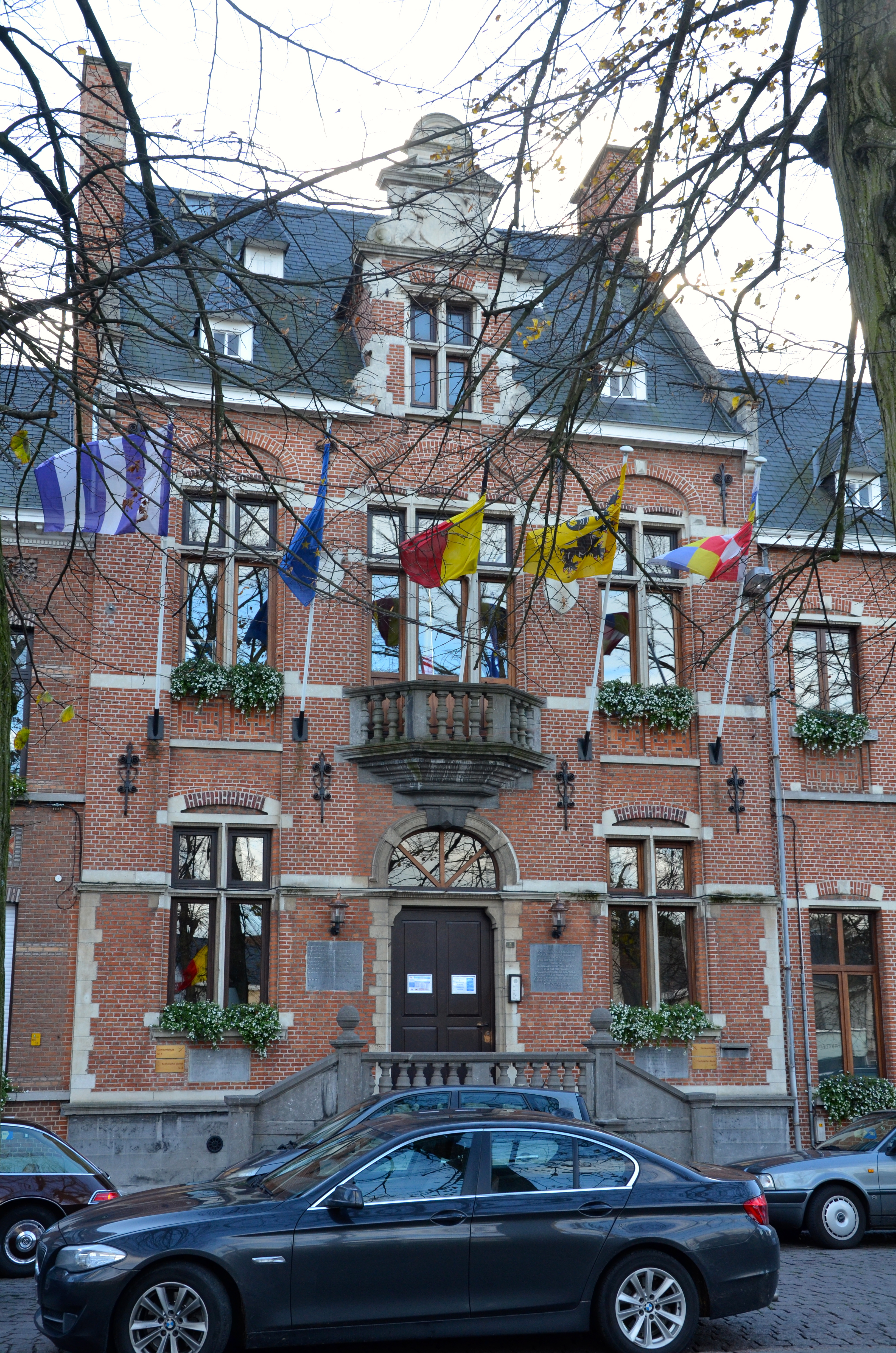 Townhall Berlaar